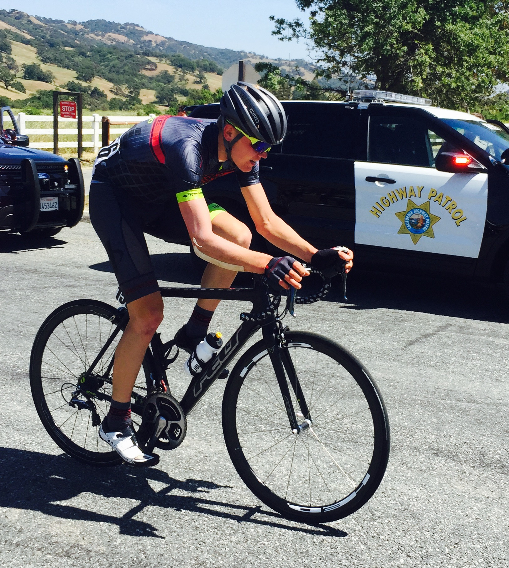 Stage 3 - Tour of California 2015 - San Jose